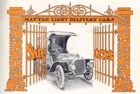 Maytag-Mason Motor Co. brochure cover (1911) showing a Maytag Model 12 Van in a open gate inscribed with "success".